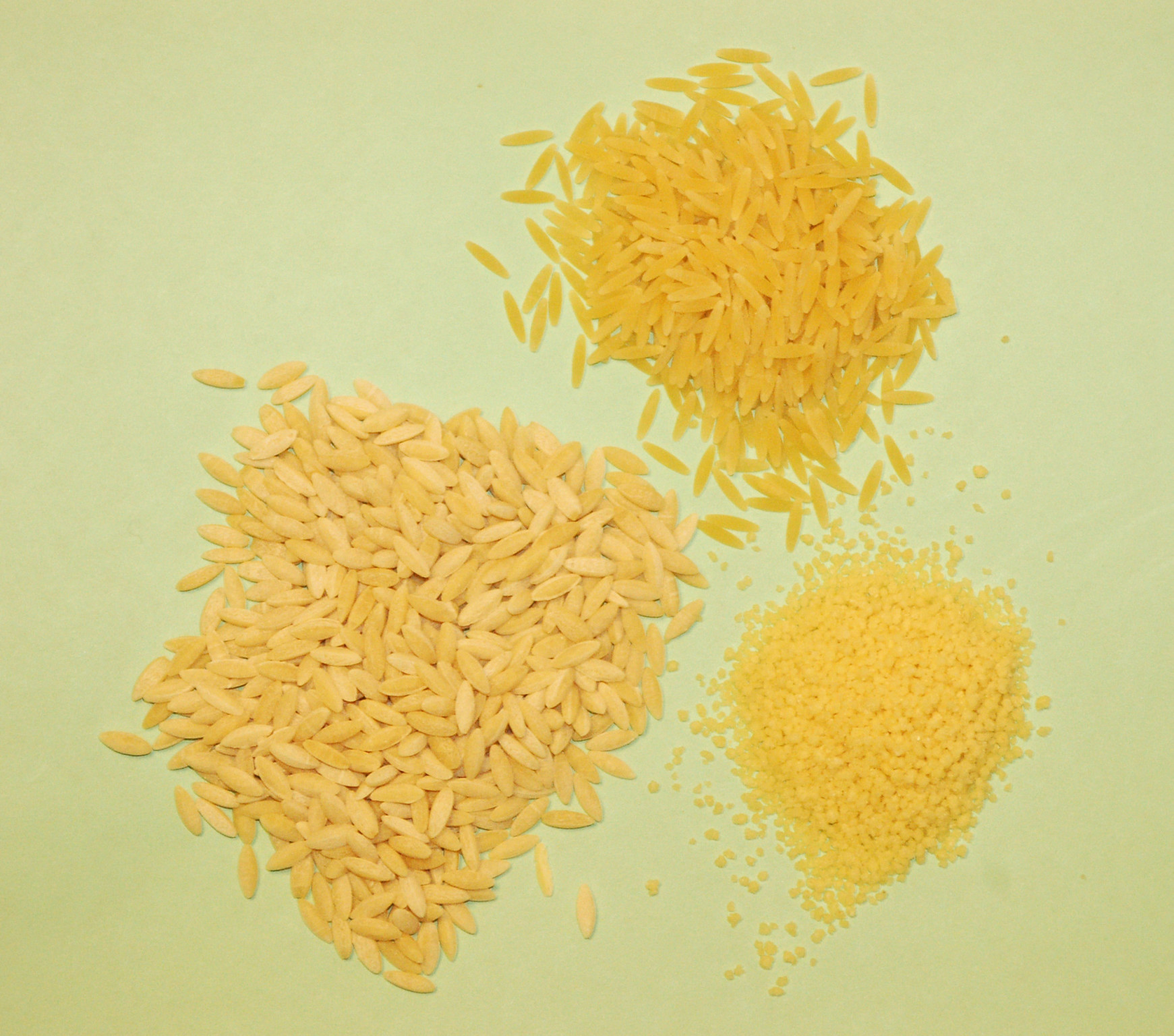 Orzo Risi and Couscous comparison of pasta.